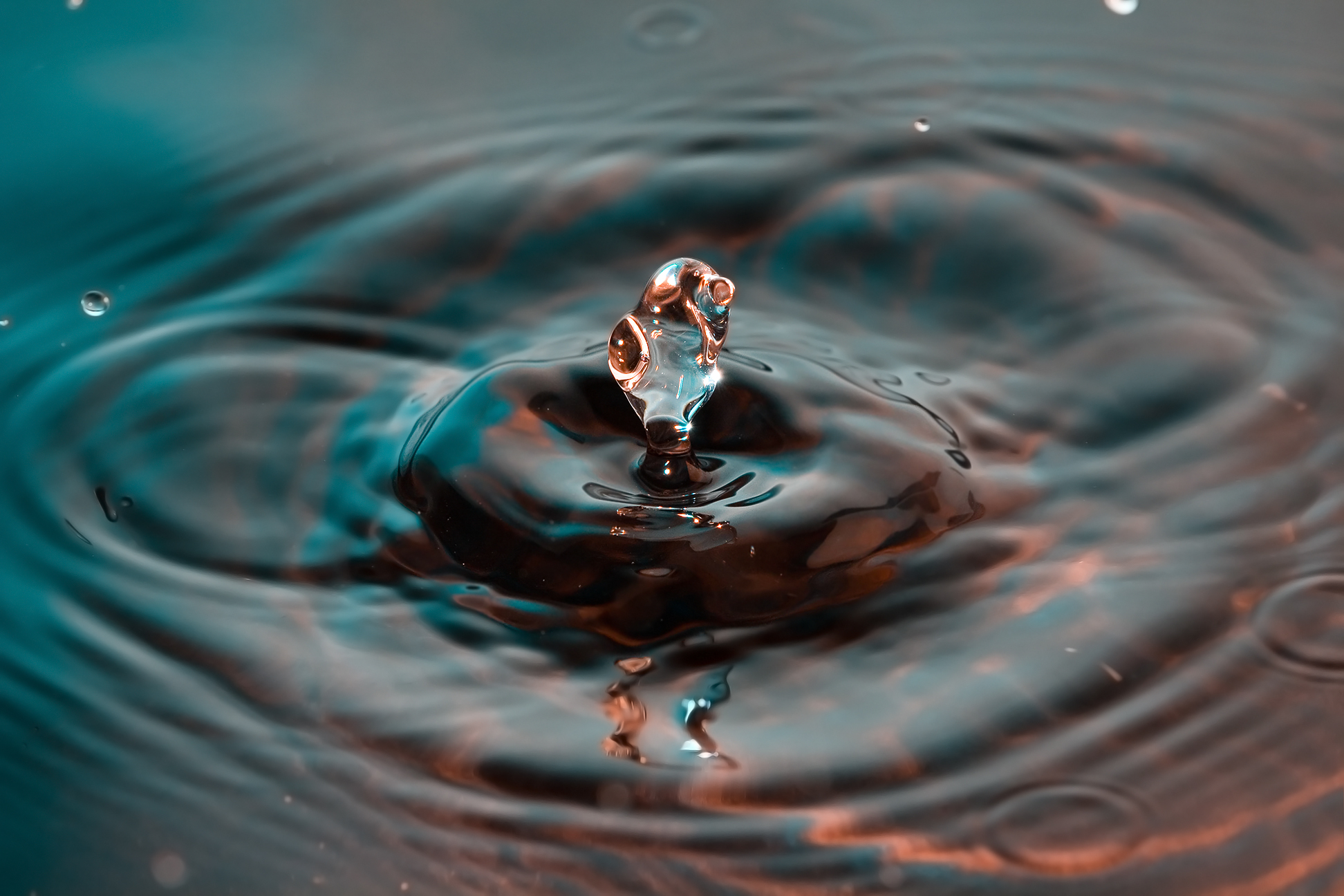 Spout after water droplet caused by surface tension.